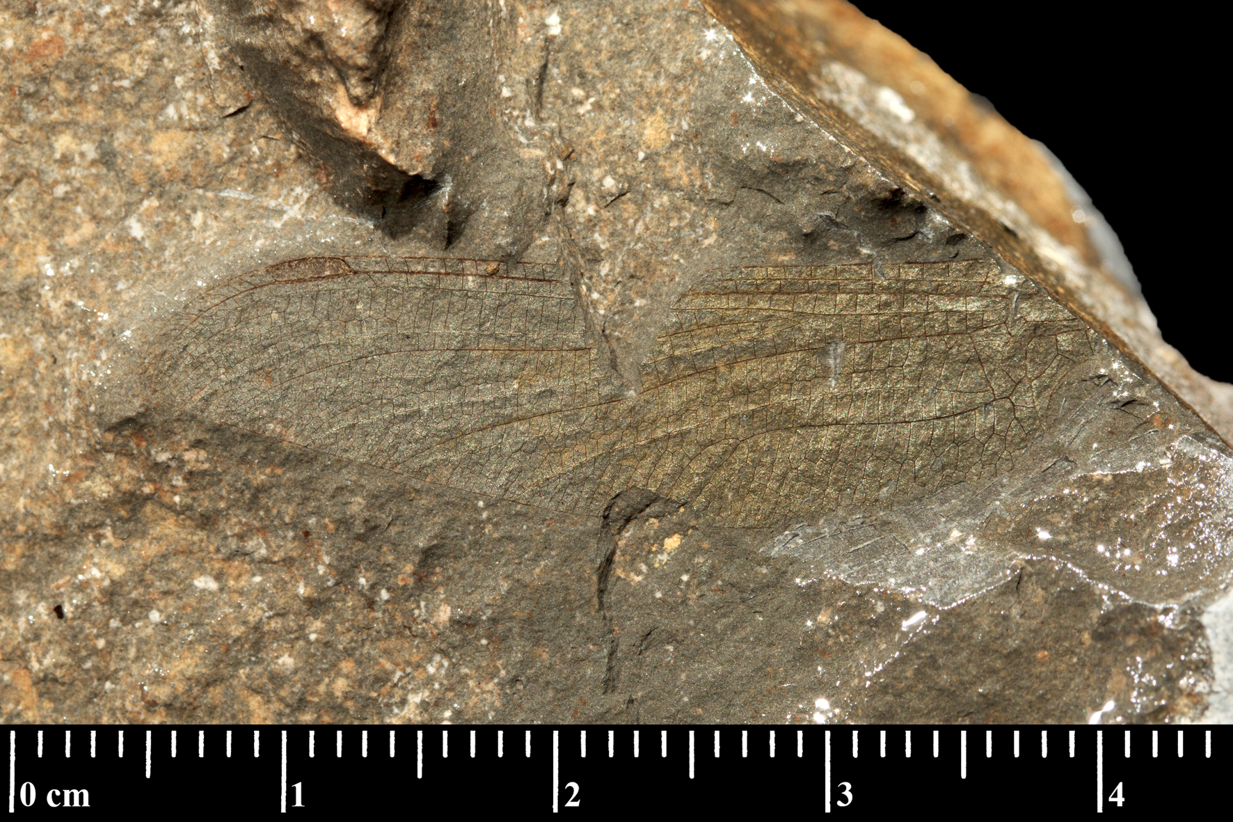 The Paraplagiophlebia loneuxi holotype part side with direct lighting and with ethanol wetting to show detail. Toarcian, Jurassic; Bascharage, Luxembourg Muséum national d'Histoire naturelle specimen MNHN.F.R10385